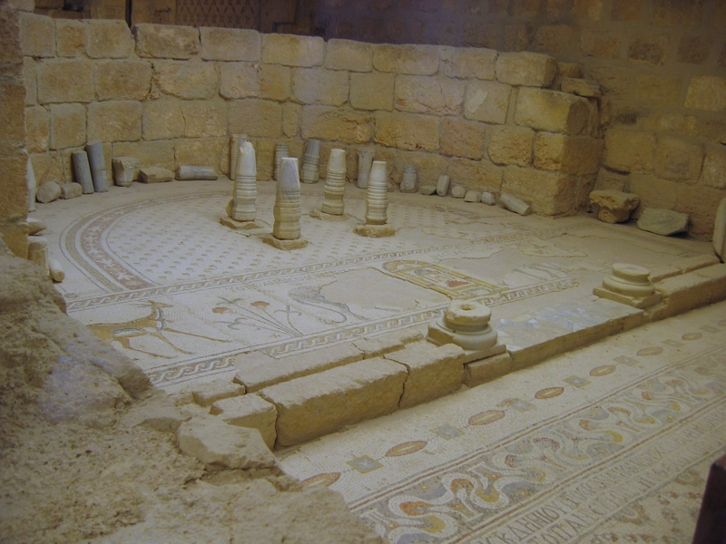 Mosaic at the church on Mount Nebo : the Theotokos ("Mother of God") Chapel.